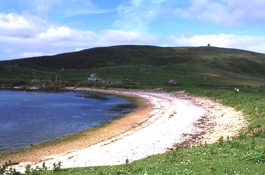 Nesti Voe beach on Isle of Noss, Shetland, Scotland